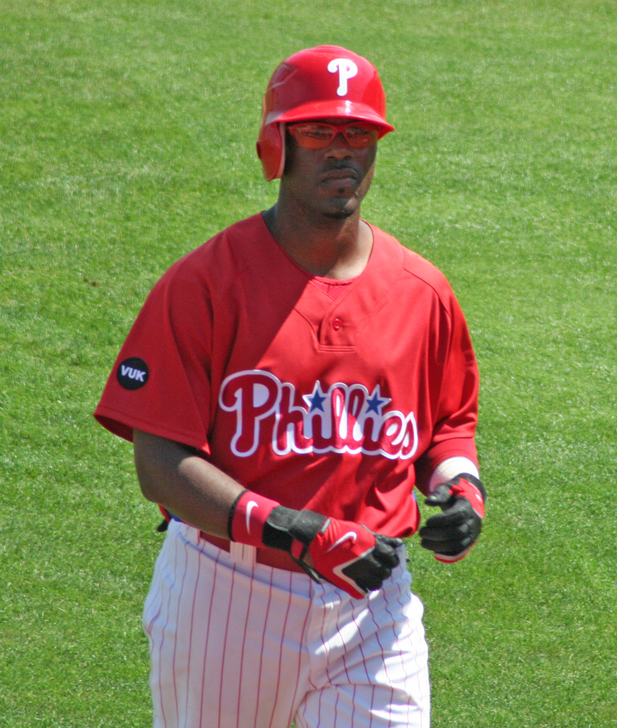 Photograph taken by Googie Man 00:43, 16 August 2007 . . Googie man . . 1271×1500 (1,592,080 bytes)